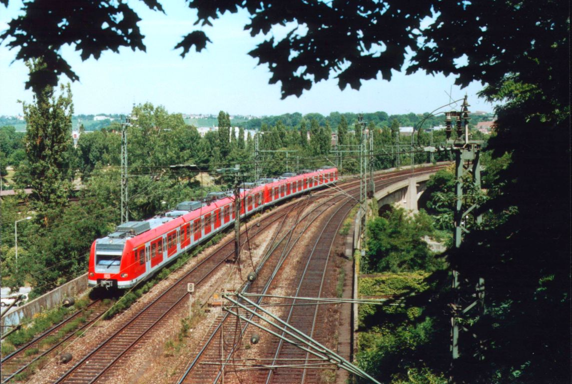 DB AG multiple unit of type 423, location: Stuttgart (Neckar bridge)